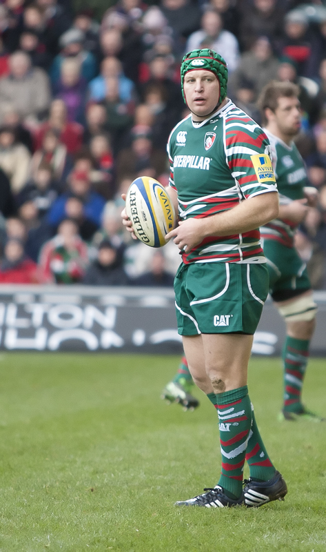 Leicester Tigers vs Bath, Aviva Premiership, Welford Road, Saturday 1st December 2012